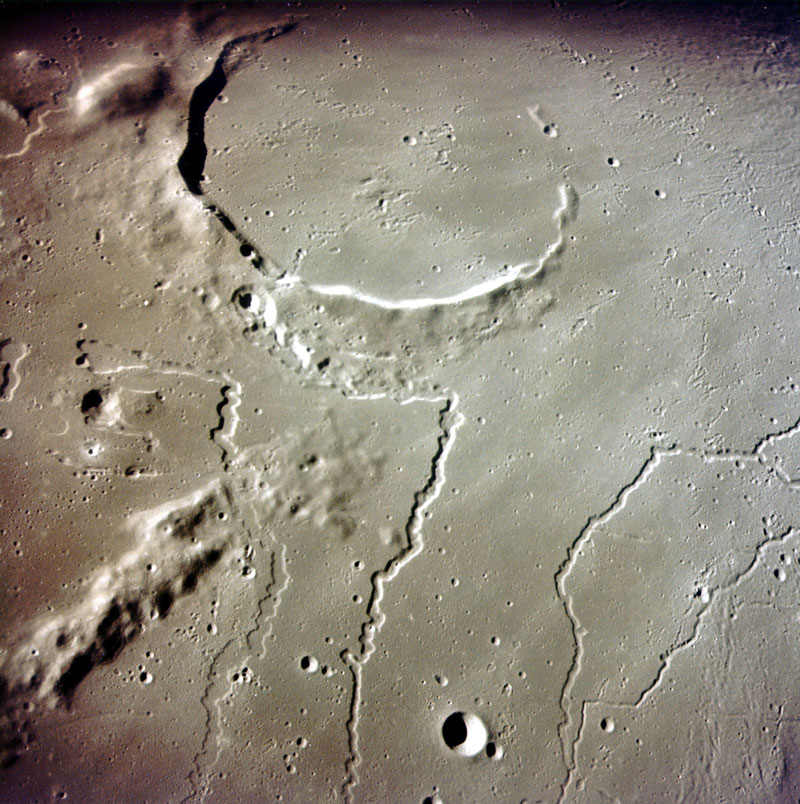 Apollo-15 image about the vicinity of Prinz crater